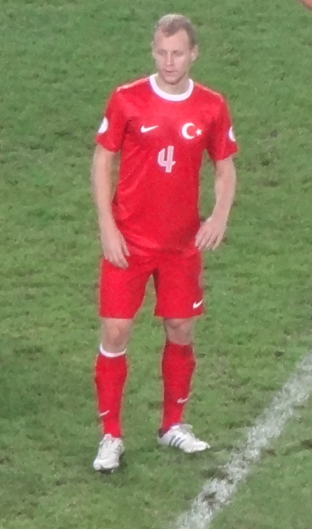 Semih